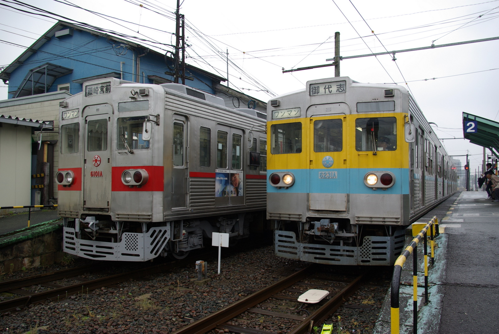 Kumamotodentetsu Co., Ltd. 6101A(left) and 6231A(right)